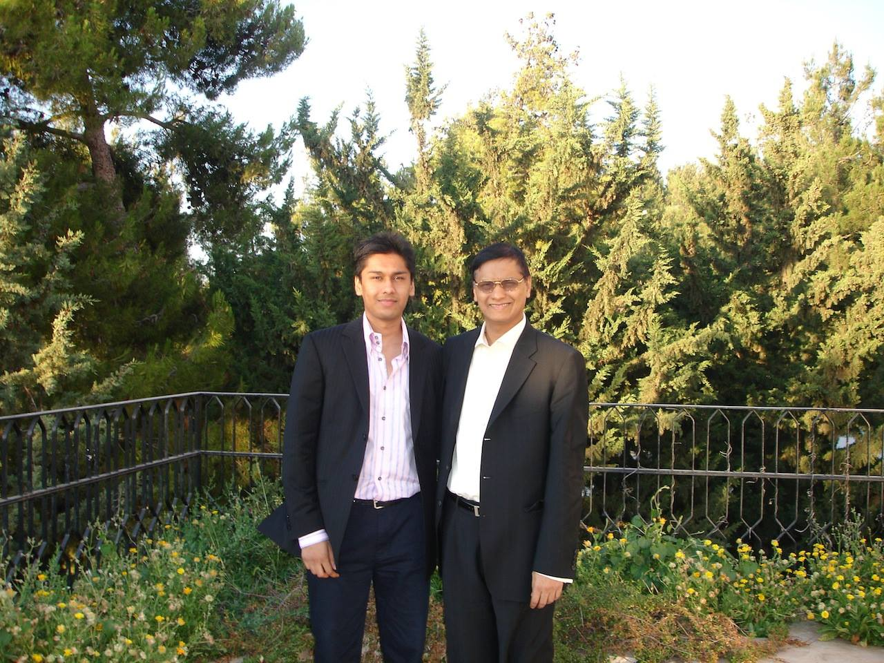 Vinay Maloo with son Vaibhav Maloo in Jordan's Royal Palace